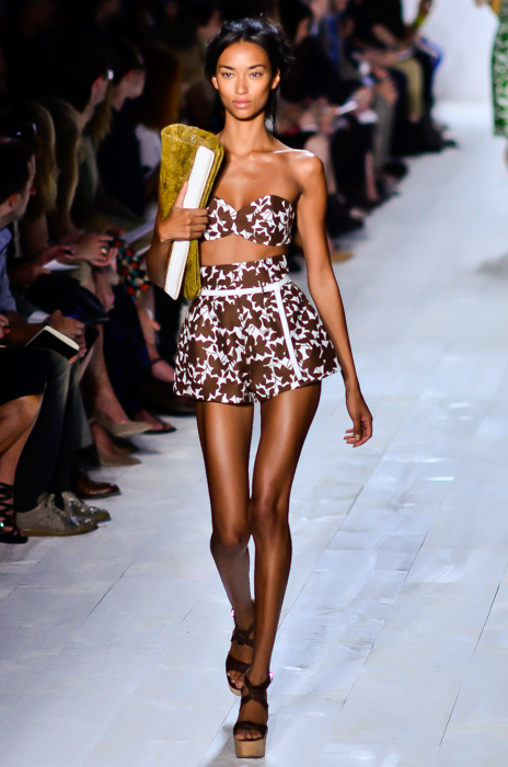 A model walks the runway at the Michael Kors Spring/Summer 2014 show at New York Fashion Week, September 2013.